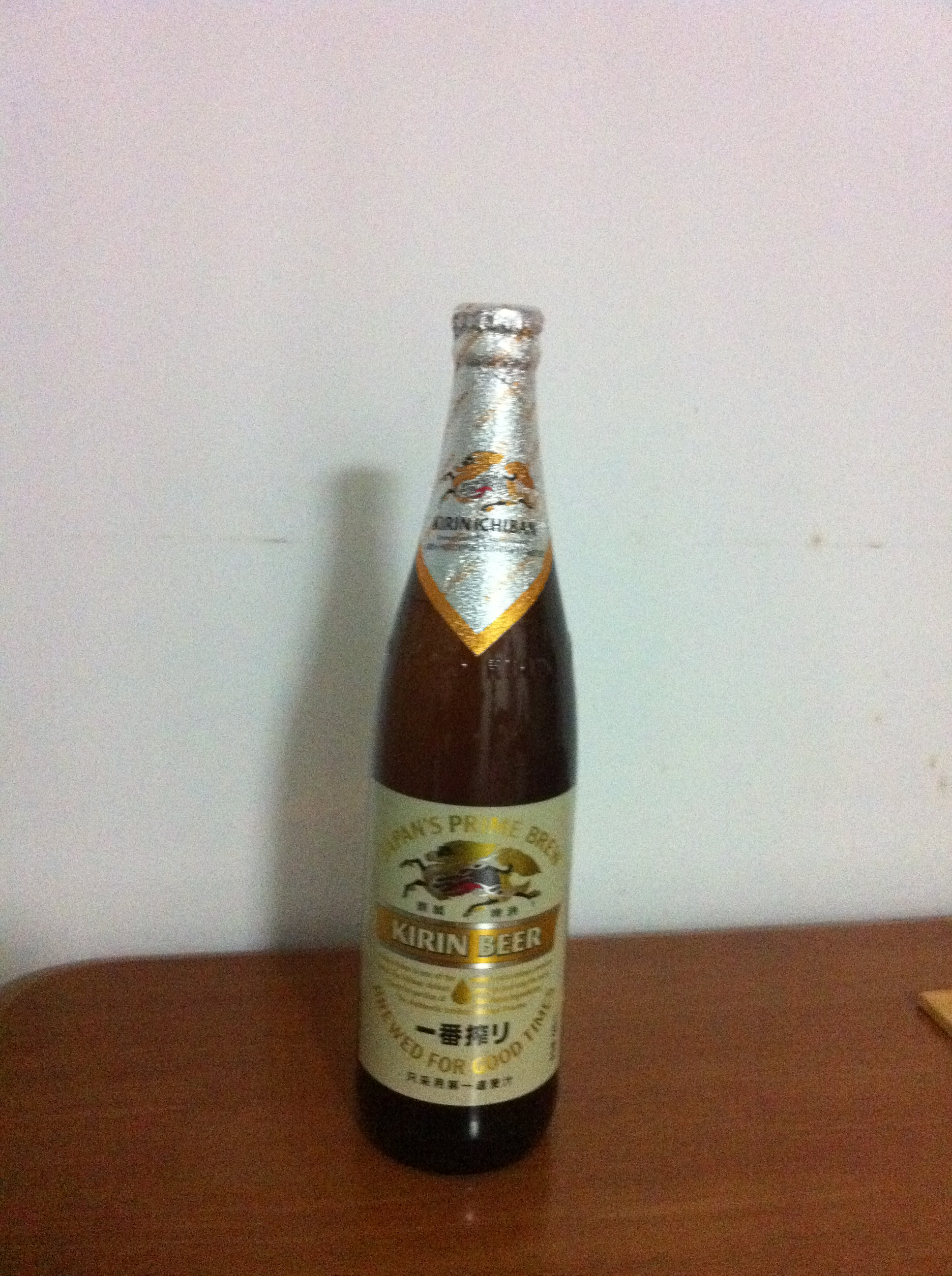 Kirin beer bottle, from Japan